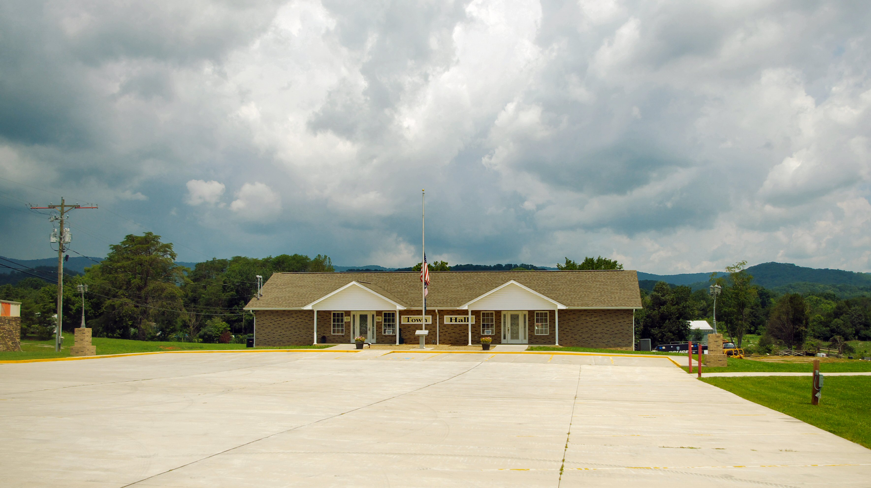 Town Hall of Bean Station, Tennessee, United States.